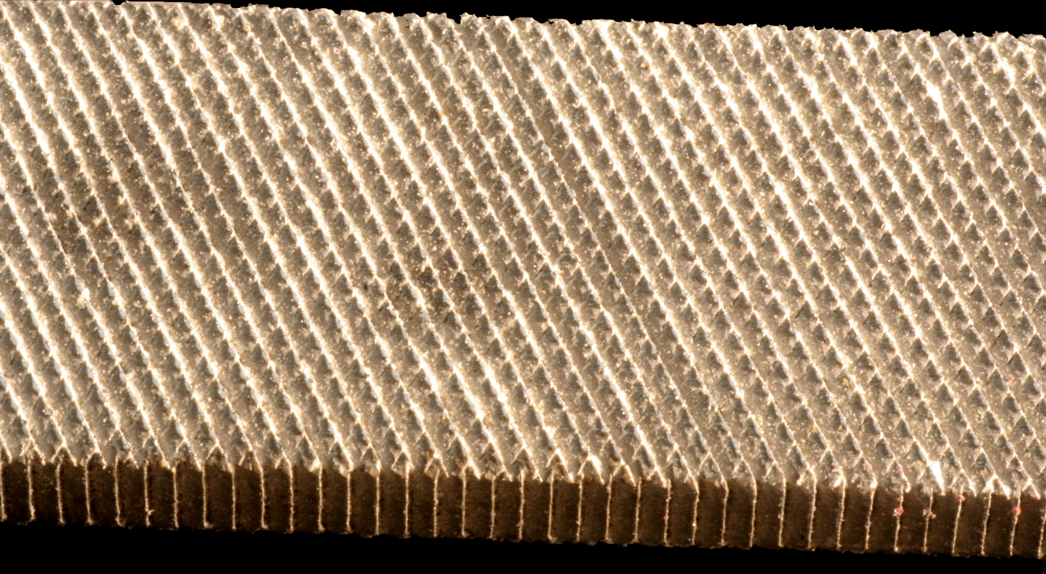 Detailed view of a milling-made file